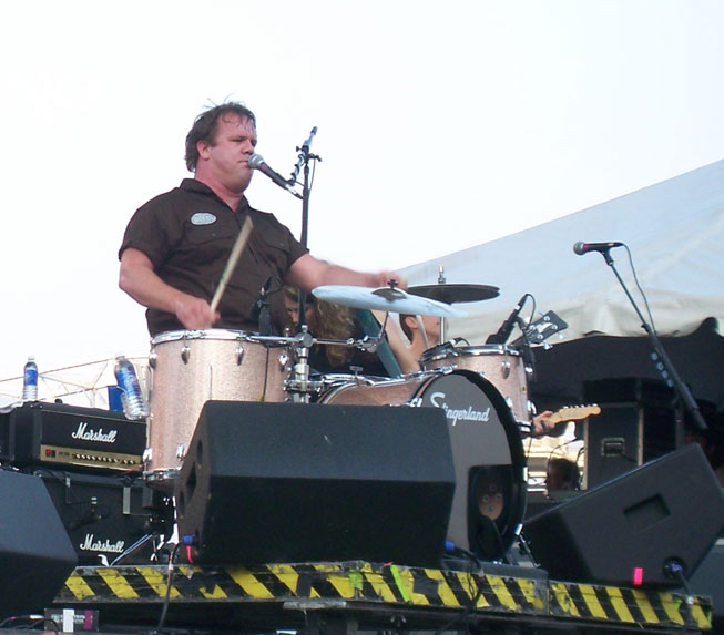 Fred LeBlanc, lead singer and drummer for Cowboy Mouth. Image taken during a concert in Nashville, Tennessee.